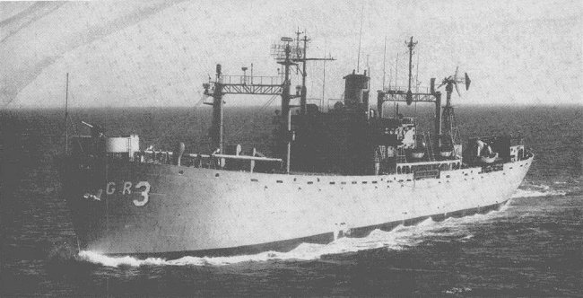 USS Skywatcher (YAGR-3) underway, date and location unknown. US Navy photo from "All Hands" magazine, August 1957